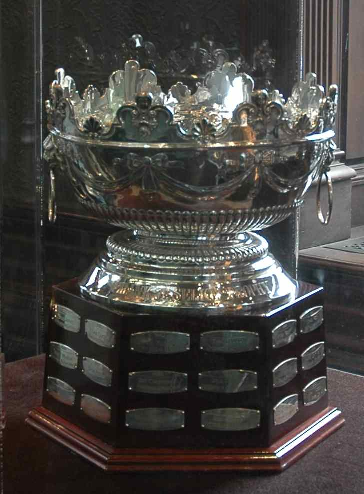 Frank Selke Trophy in der Hall of Fame in Toronto